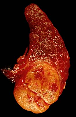 This follicular adenoma of the thyroid is shown in a right lobectomy specimen, sectioned vertically and viewed from the posterior aspect to show a 2.7 cm tumor distending the lower pole. Photograph by Ed Uthman, MD. Public domain. Posted 2 Jan 99